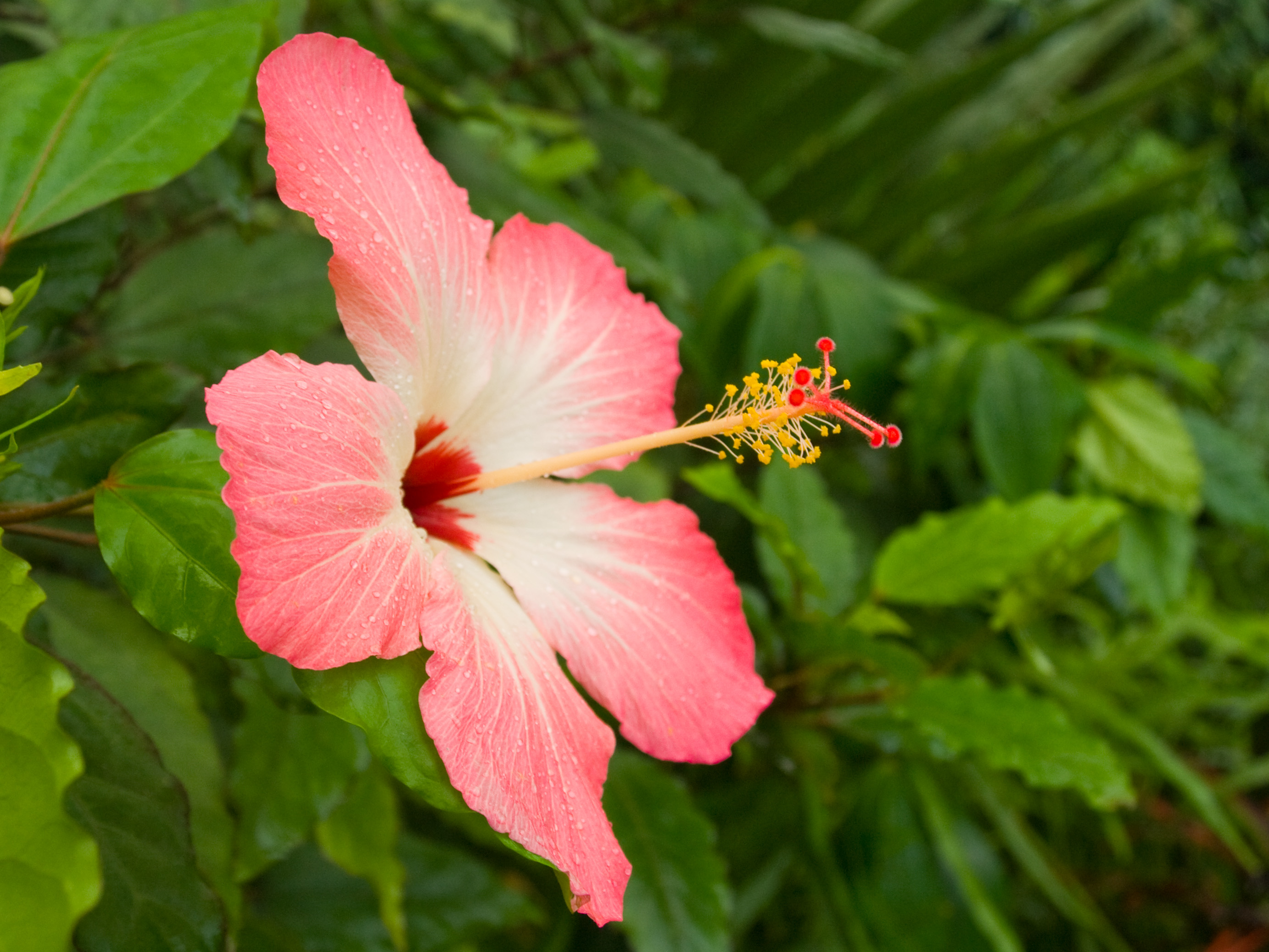 Hibiscus, Fata Morgana greenhouse, Prague Botanic Garden in Troja